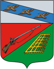 Fatezh (Kursk oblast), coat of arms (1780)